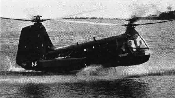 A U.S. Navy Piasecki HUP Retriever making a water landing with floats at the U.S. Navy Naval Air Test Center at Naval Air Station Patuxent River, Maryland (USA), in 1958.